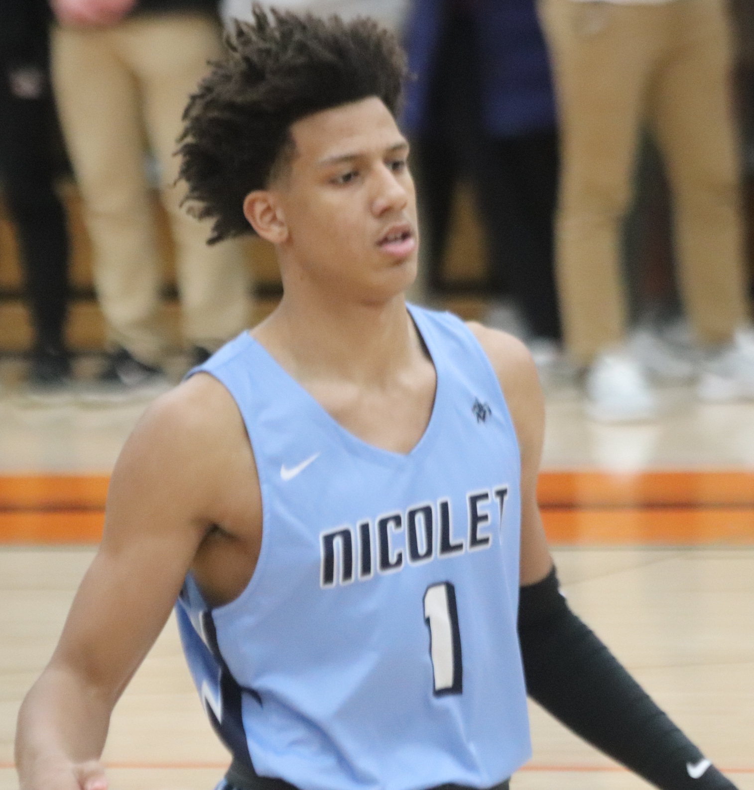 Jalen Johnson playing for Nicolet High School (Glendale, Wisconsin).